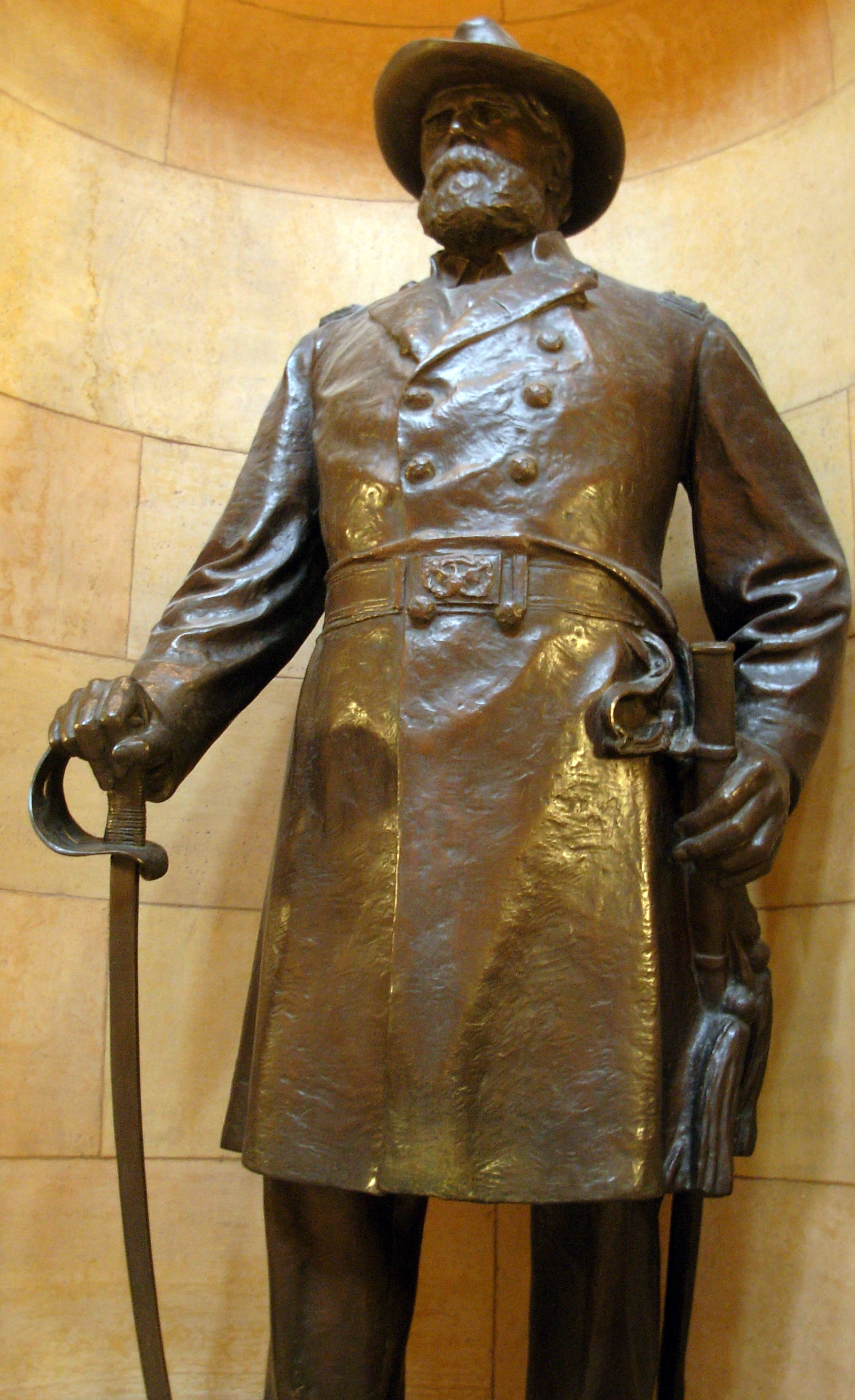 William J. Colvill statue inside the Minnesota State Capitol rotunda